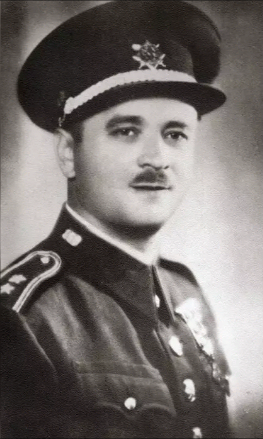 Václav Černý (1894 – 1942) was a member of the Czechoslovak legions in Russia (a participant in the Battle of Zborov), a Czechoslovak First Republic soldier (officer, rank of Major) and a illegal resistance fighter during protectorate, executed by the Nazis for anti - German activities in 1942.